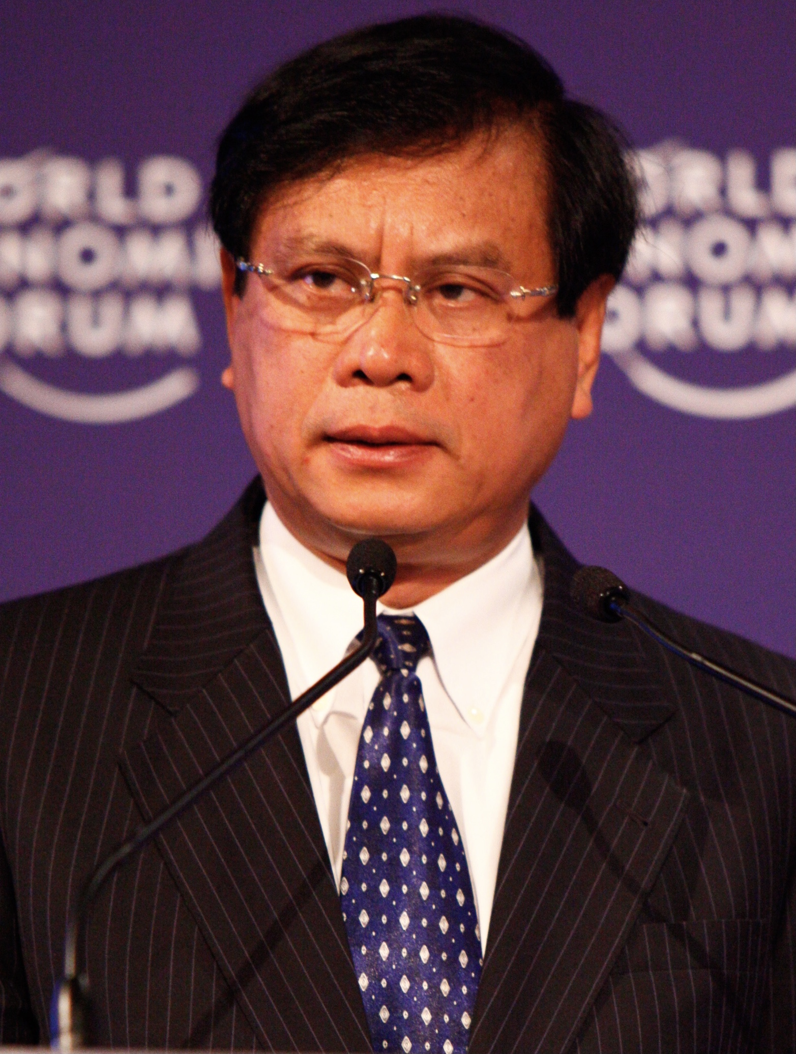 HO CHI MINH CITY/VIETNAM, 6JUN10 - Bouasone Bouphavanh, Prime Minister of Laos captured during the World Economic Forum on East Asia in Ho Chi Minch City, Vietnam, June 6, 2010. Copyright World Economic Forum /Ms. Sikarin Thanachaiary